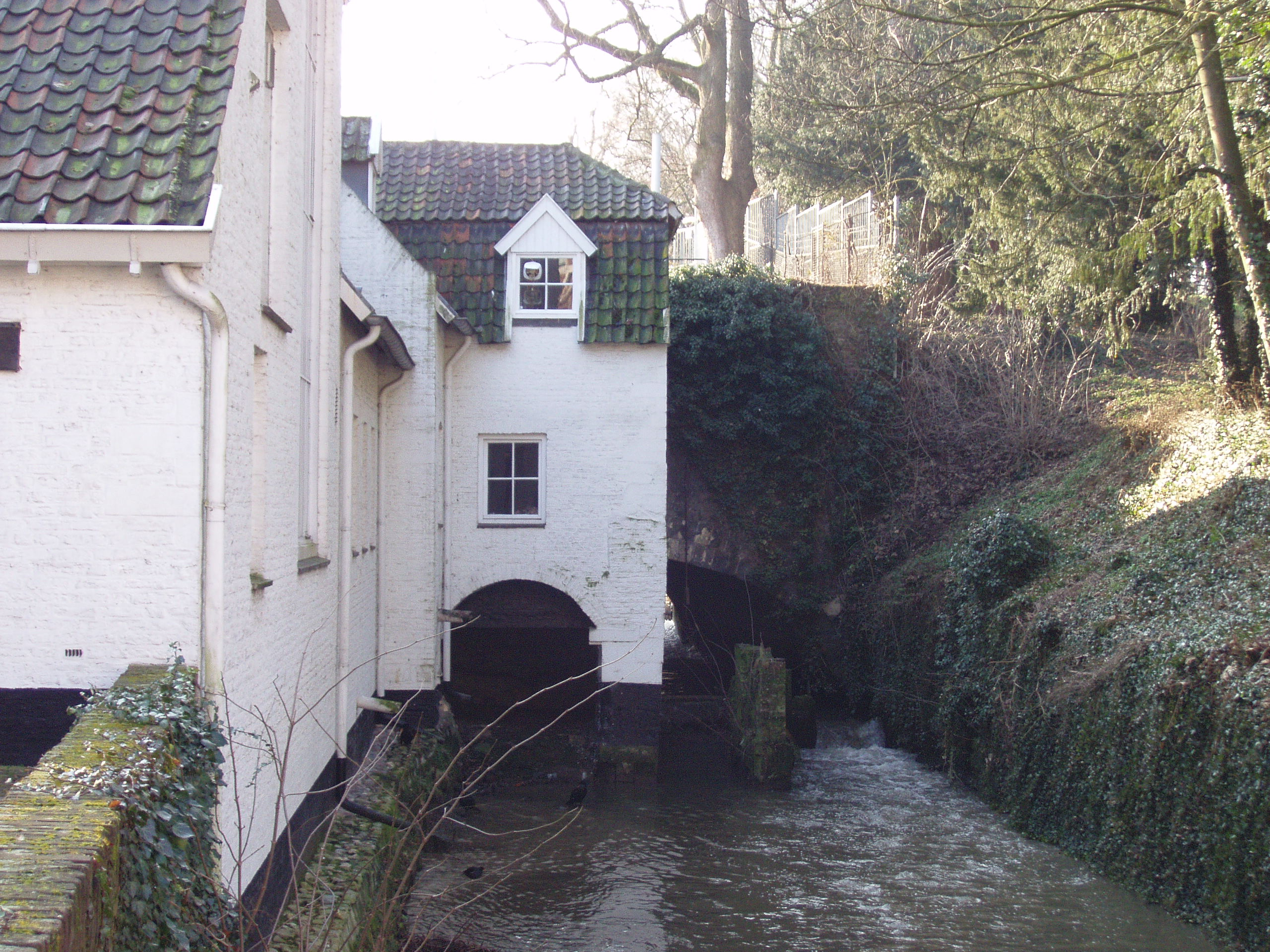 Watermill De Reek, Maastricht, Limburg, Netherlands